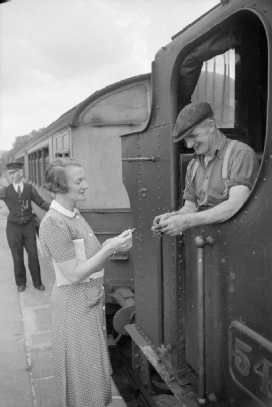 A Village Saves- National Savings in Lewknor, Oxfordshire, England, 1941 Mrs Scott, school mistress at Lewknor village school sells Savings Stamps to Bill Hopkins, the engine driver of the 4:20 from Princes Risborough. On the station platform, the porter, another member of the Hopkins family, can be seen. According to the original caption, there were 13 families in the district with the surname Hopkins.